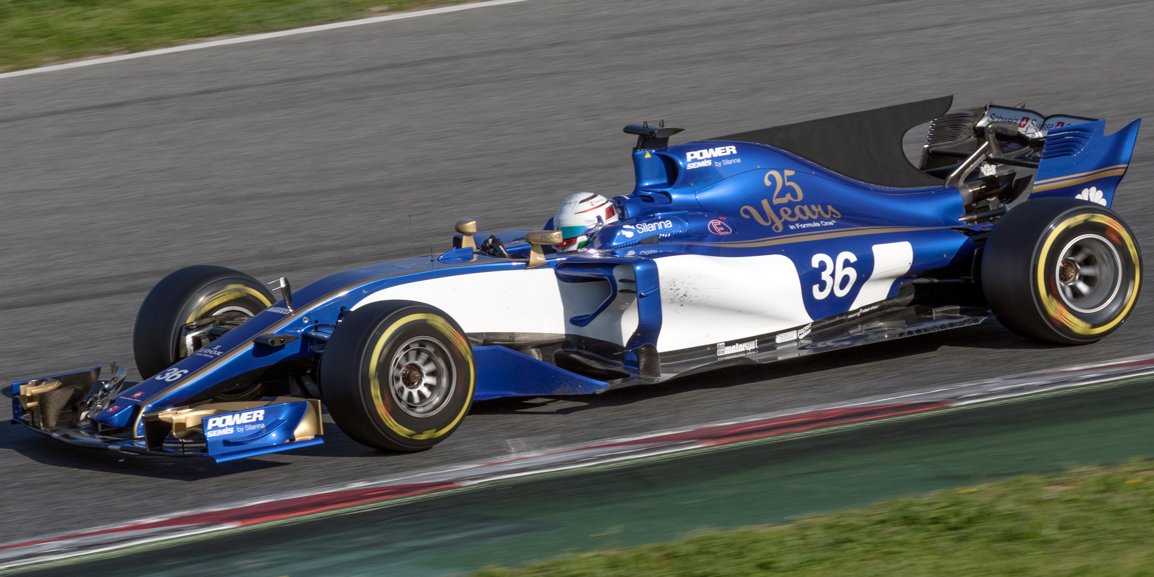 Formula One 2017 Catalonia test (27 February-2 March): Antonio Giovinazzi (Sauber)